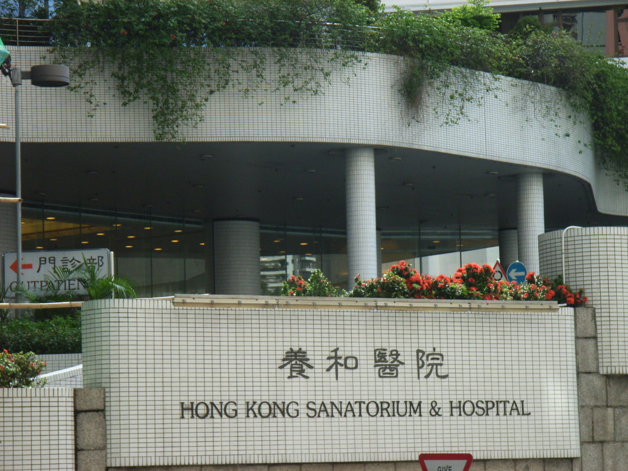 Hong Kong Sanatorium and Hospital, Happy Valley, HK Author: BEVERLYSHEN